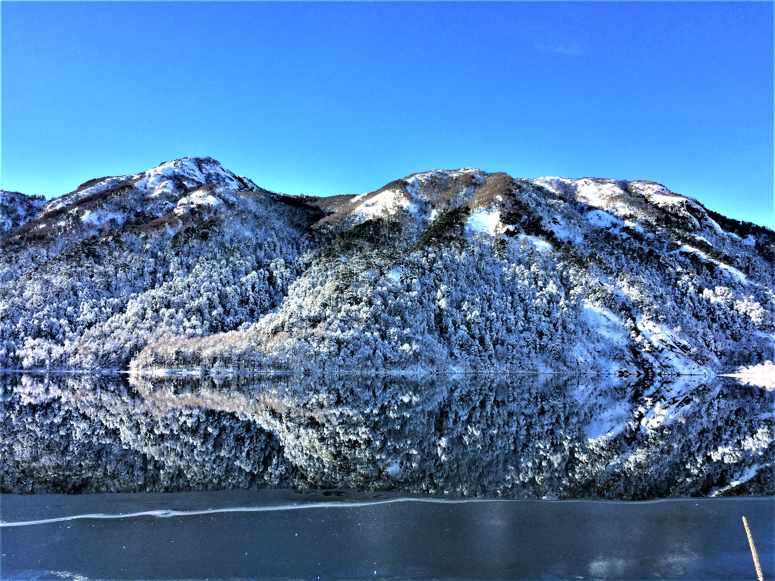 Laguna en el sector de puesto, dentro del parque nacional Villarrica.